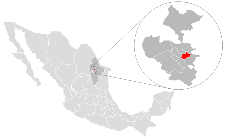 Map of location of Guadalupe, Mexico (red) within the country and state of Nuevo León. Dark gray surrounding the city shows the Monterrey metropolitan area. Map designed by Alex Covarrubias.